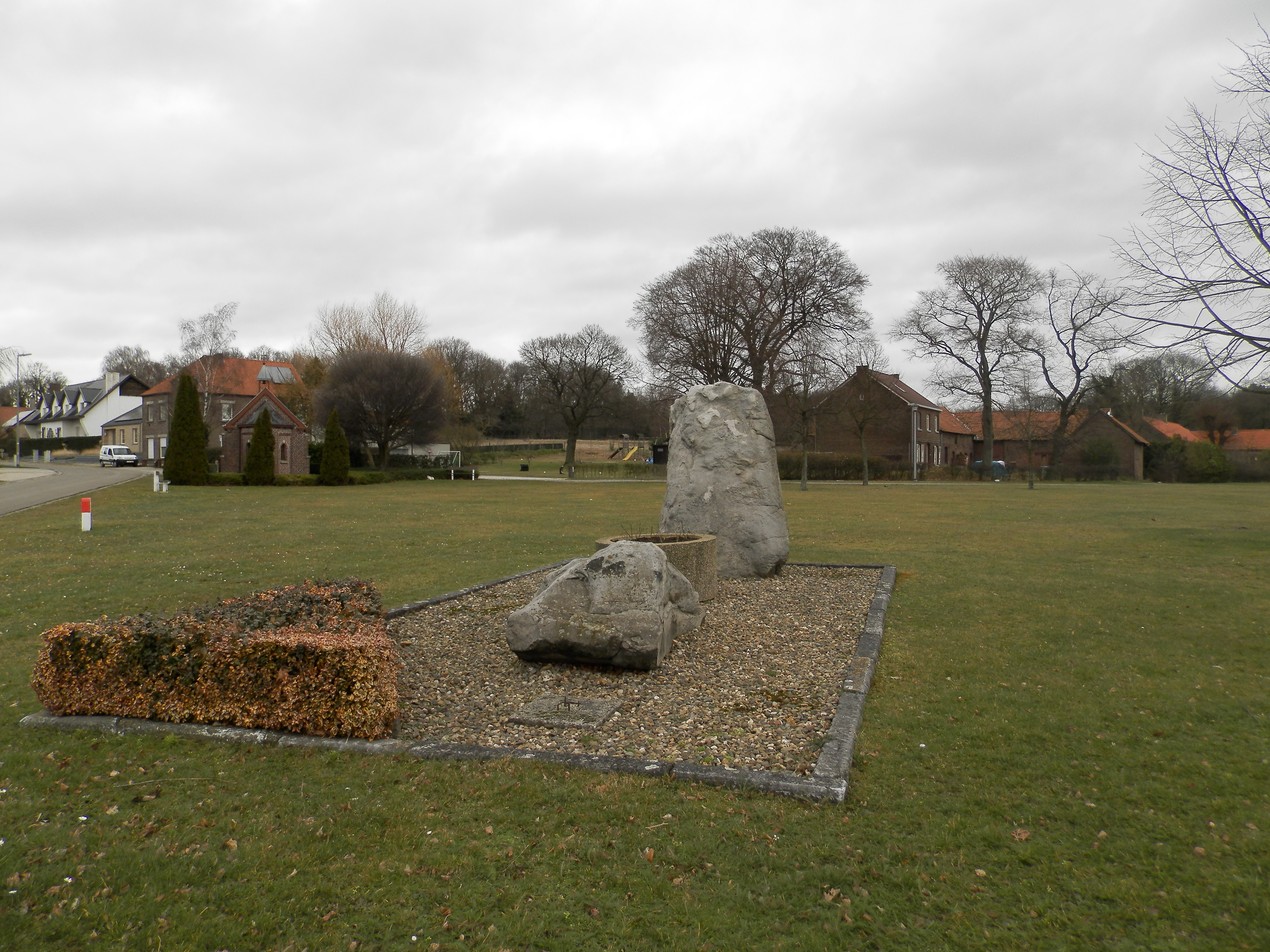 Langerlo